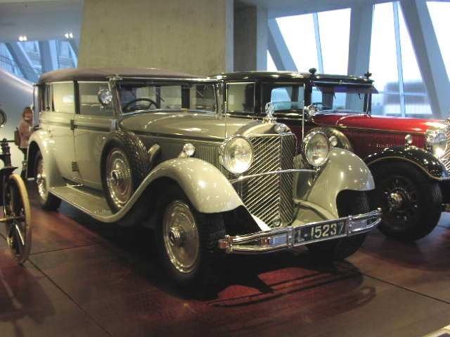 Mercedes-Benz 770 "Großer Mercedes" Cabriolet F 1932 of former German emperor Wilhelm II